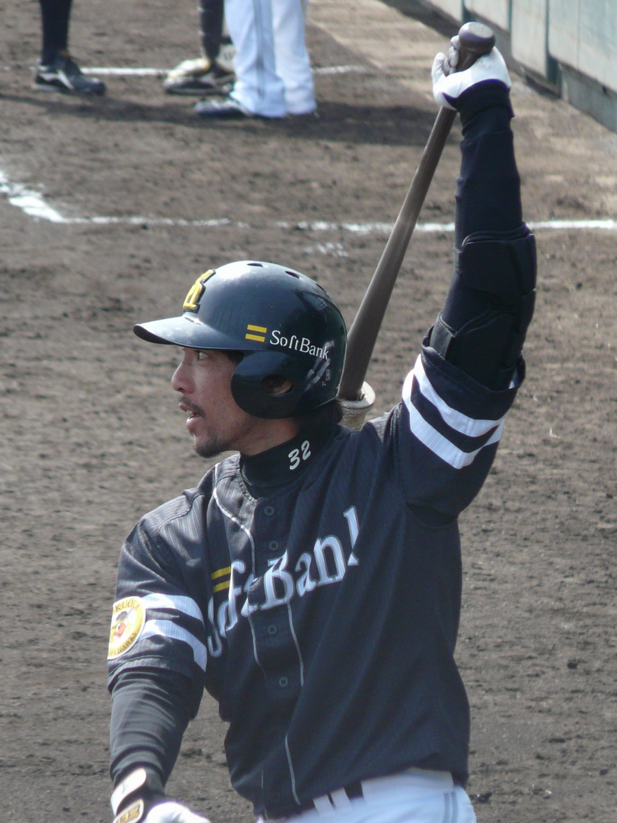 SH-Satoru-Morimoto20110318